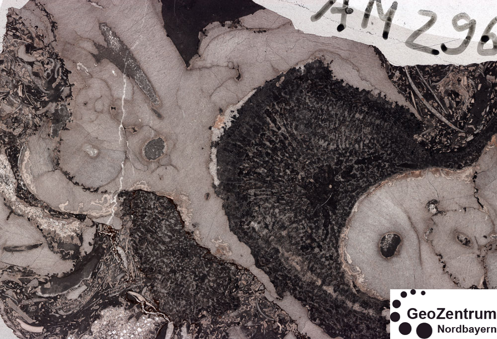 Framestone (Dunham-classification). Width of Picture is 36mm. Picture by courtesy of Axel Munnecke, Geozentrum Nordbayern